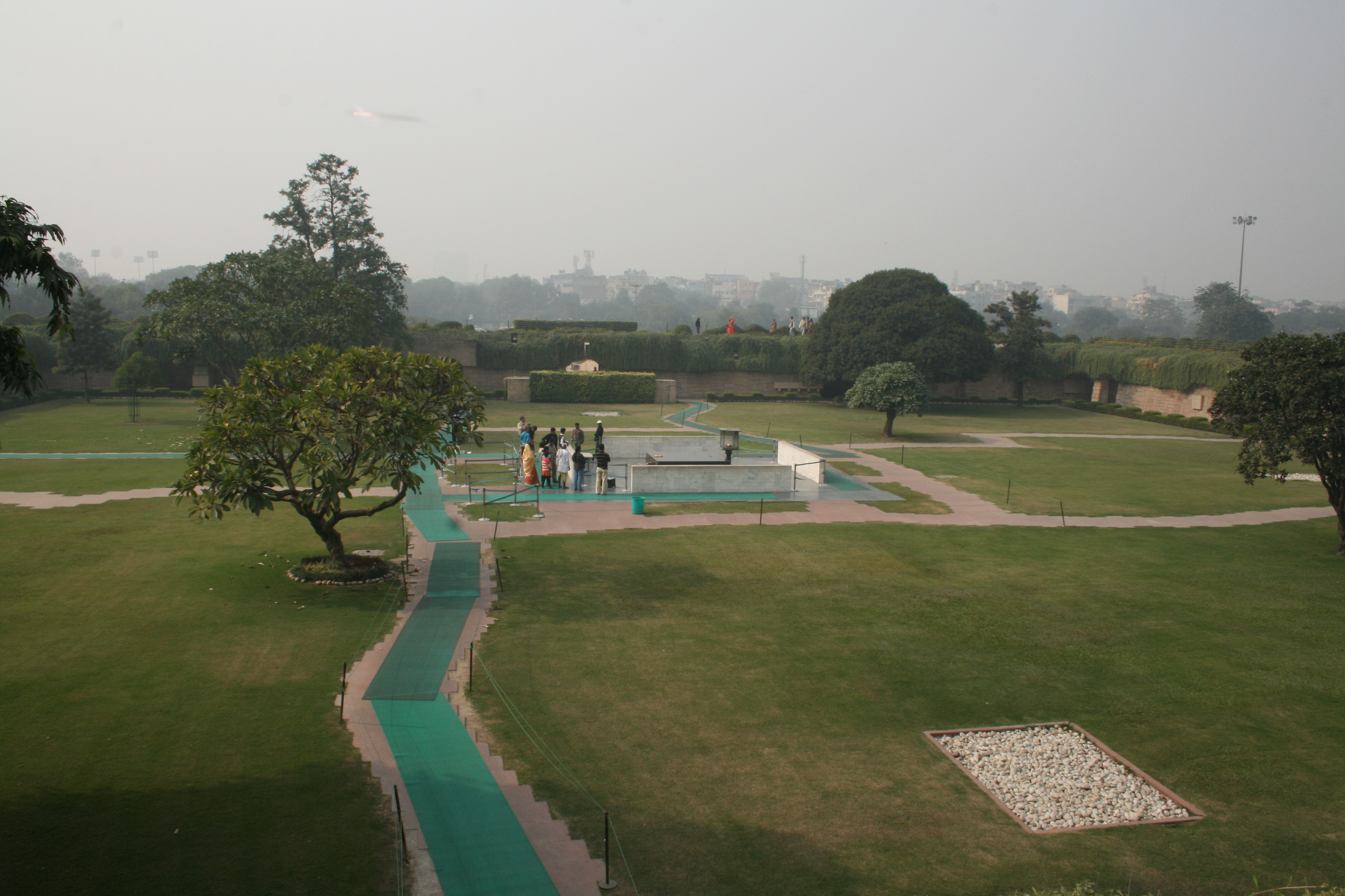 Rajghat, Delhi, India